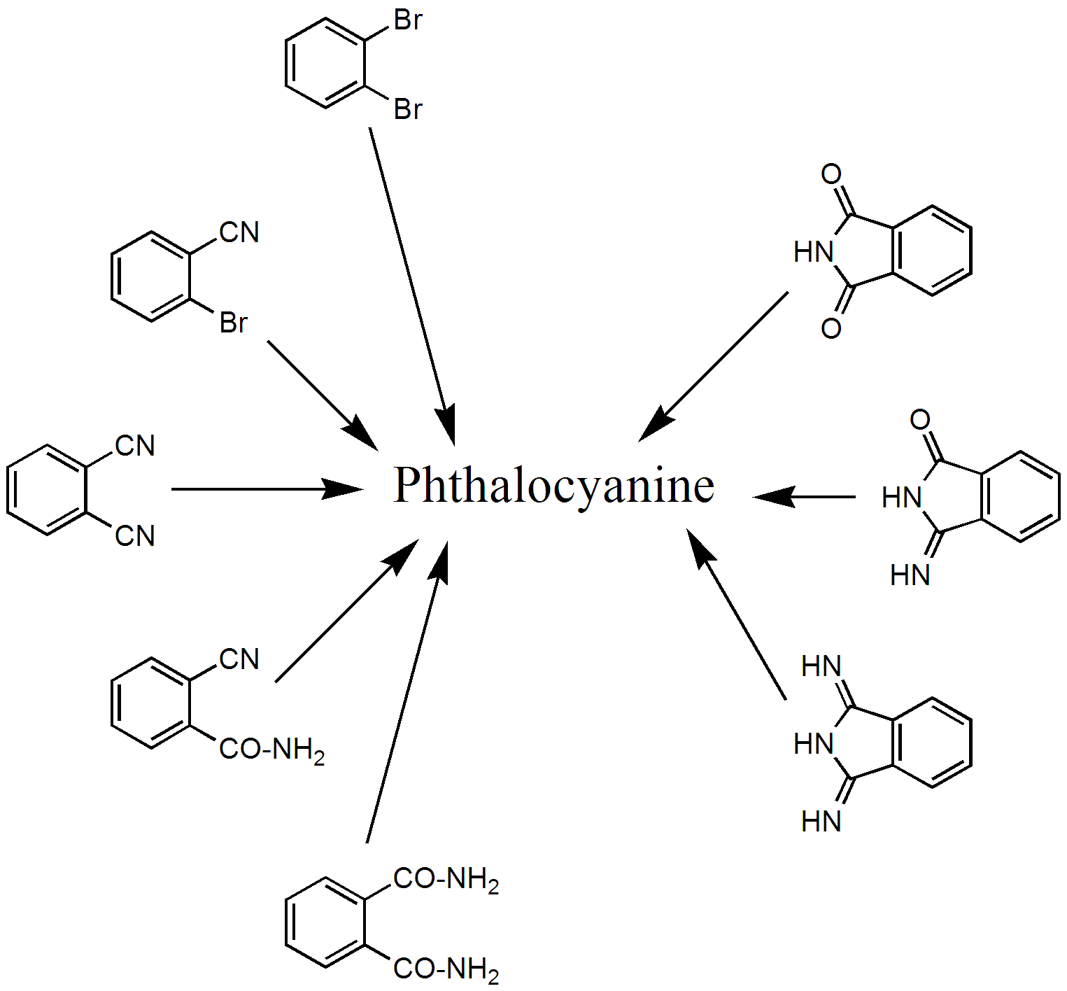 Methods of synthesis of phthalocyanines.